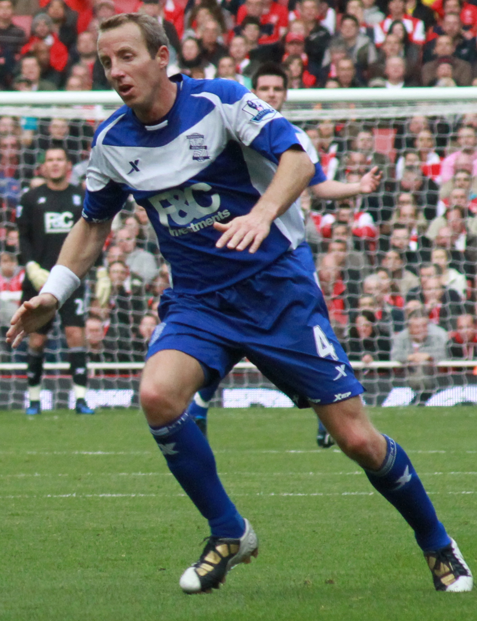 Arsenal v Birmingham City The Emirates 16 October 2010 (2-1)